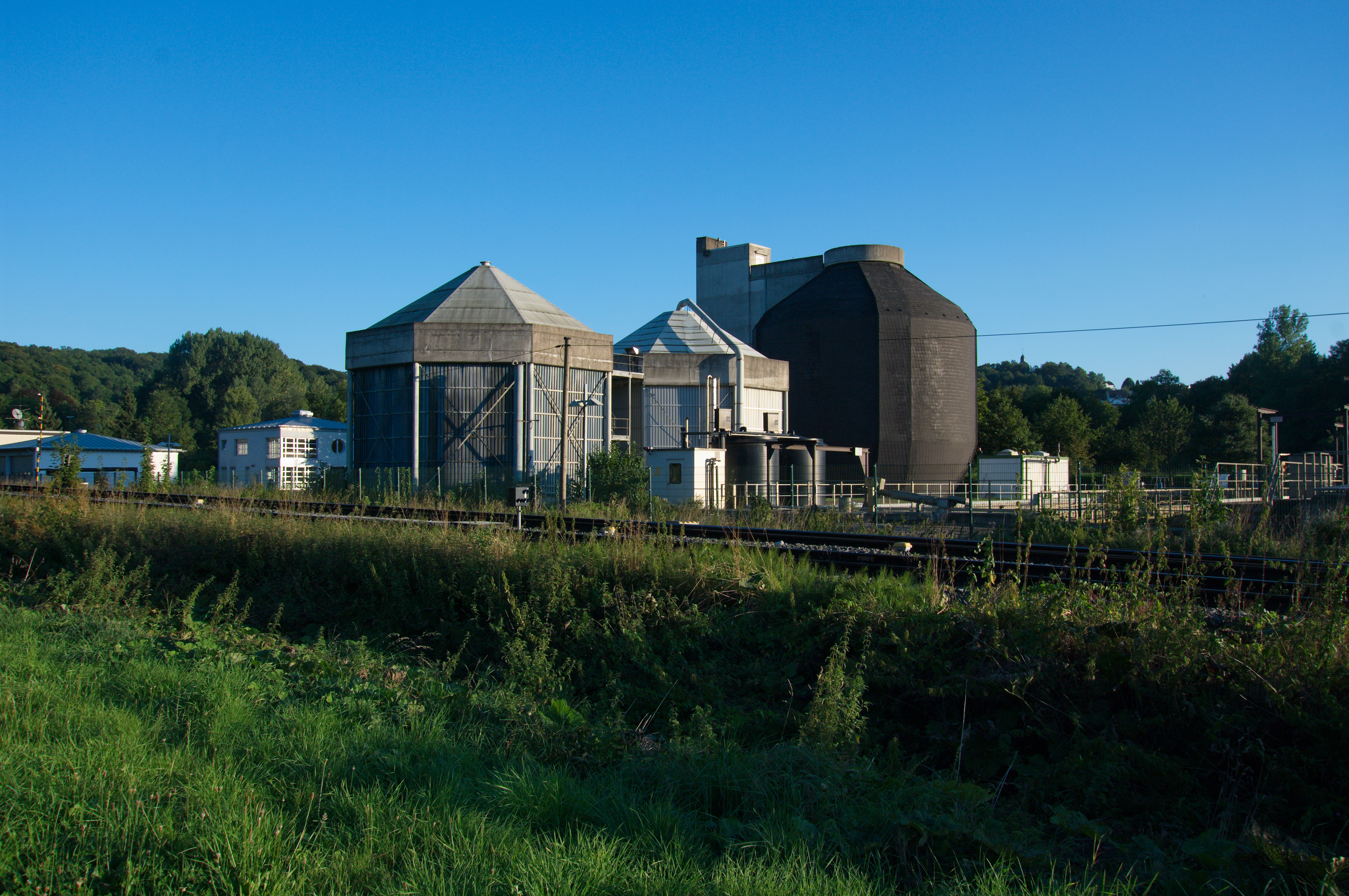 Sewage treatment plant in Warstein; managed by the Ruhrverband